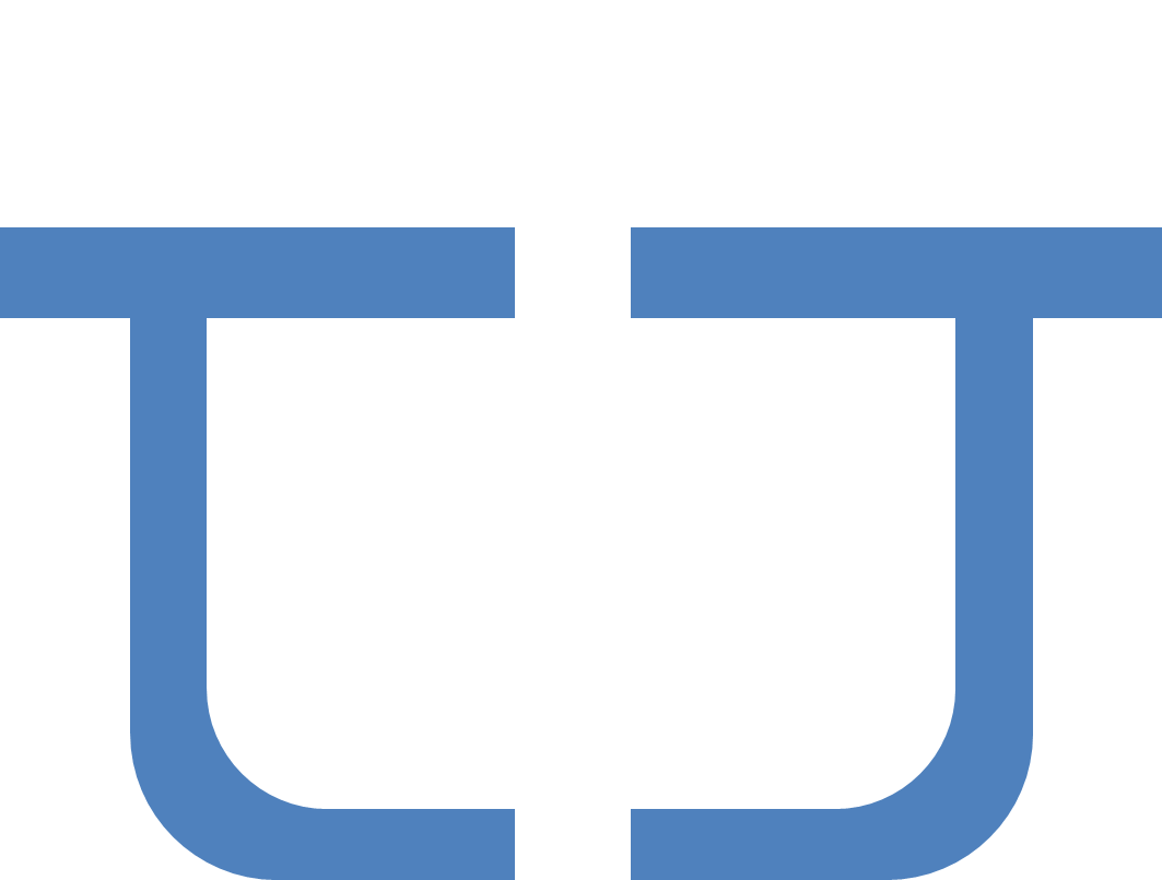 Plan of a typical Shaort Axis Milecastle on Hadrian's Wall